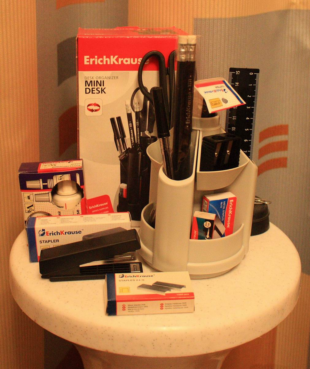 Erich Krause